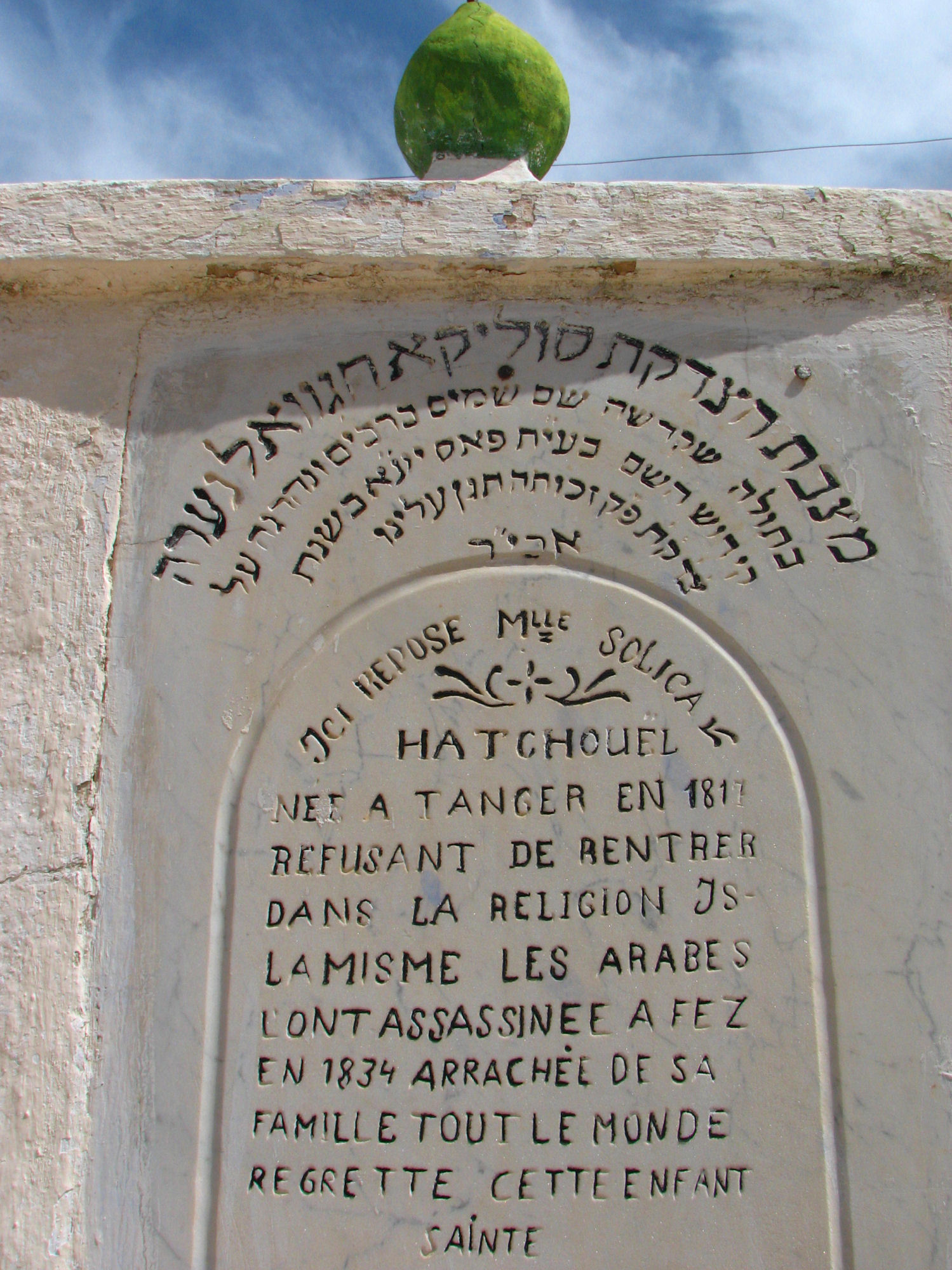 Tombstone of Sol Hachuel in Morocco with inscriptions in Hebrew and French. French inscription reads: "Here rests Mademoiselle Solica Hachuel born in Tangier in 1817 refusing to convert to the Islamic religion. Arabs murdered her in 1834 in Fez torn away from her family. The entire world mourns this saintly child."